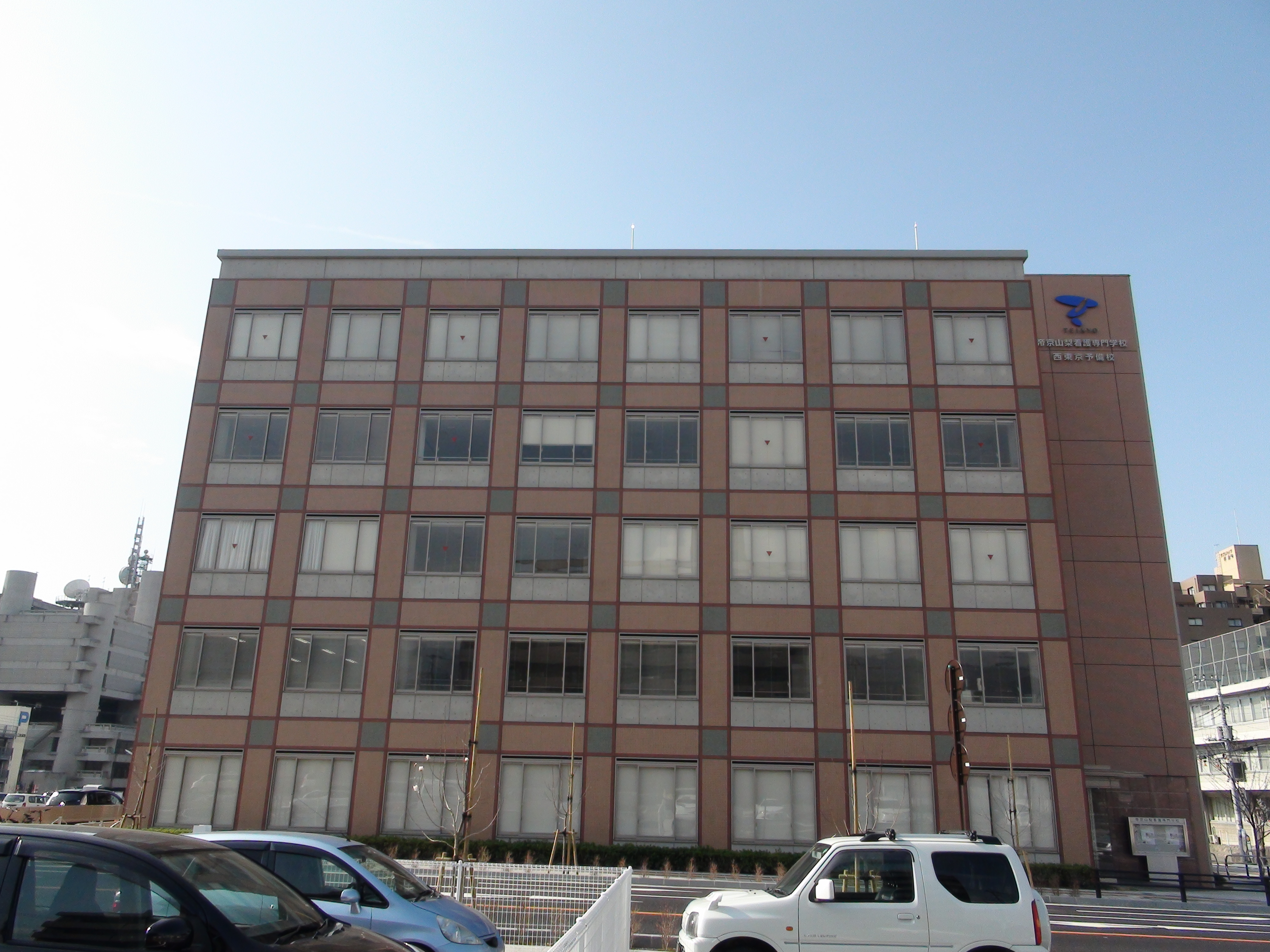 Teikyo Yamanashi School of Nursing